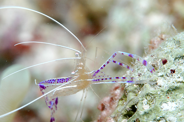 Pederson's Shrimp (Periclimenes pedersoni), Bonaire, Dutch Antilles. Image taken by Clark Anderson/Aquaimages.